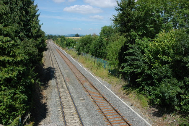 Adlestrop railway station Original description: Site of Adlestrop station This is the site of Adlestrop Station which closed in the 1960s and inspiration for the Poet, Edward Thomas in the summer of 1914 when the train he was travelling on stopped 'unwontedly' at this quiet station.